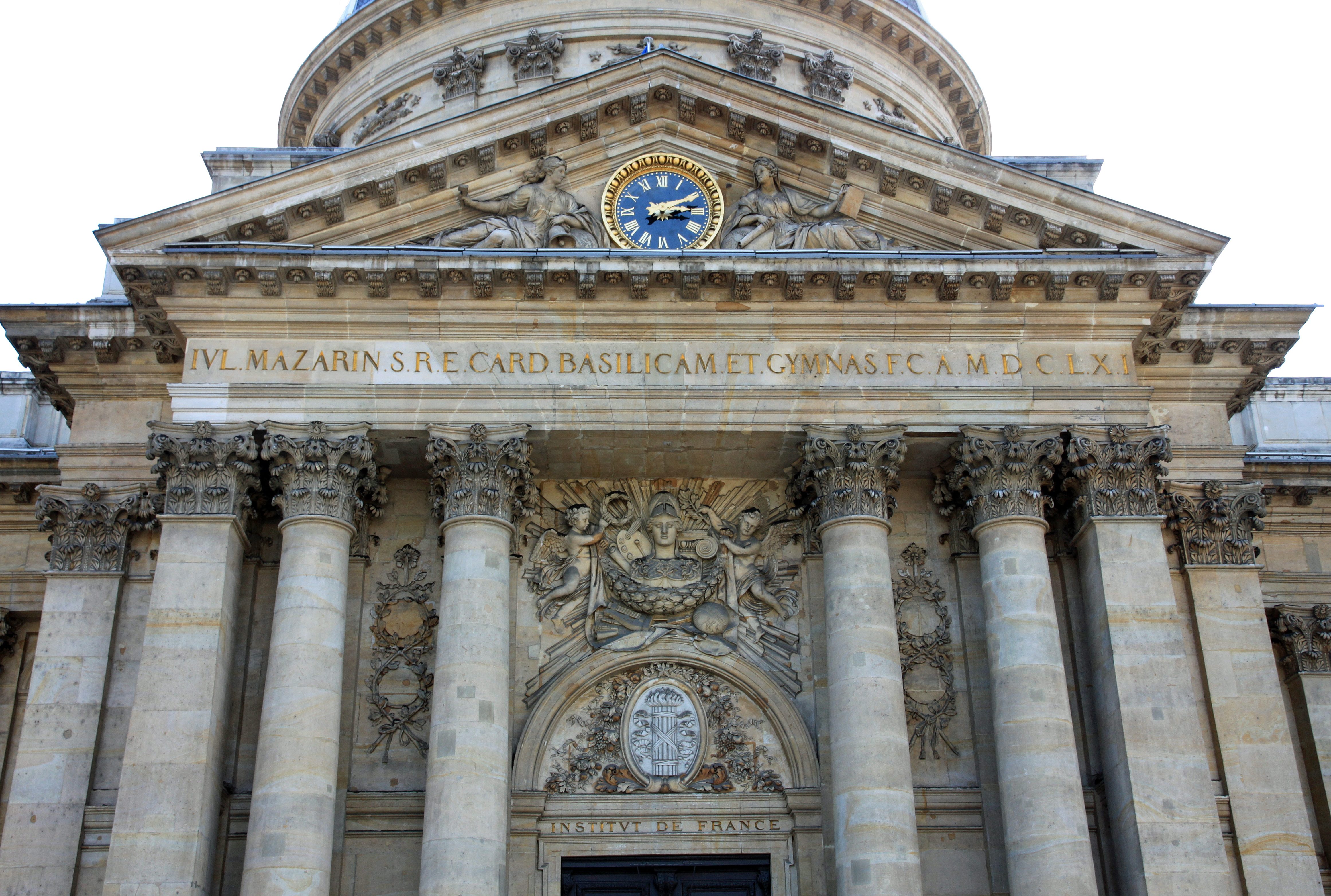 Facade of the Institut de France, Paris.